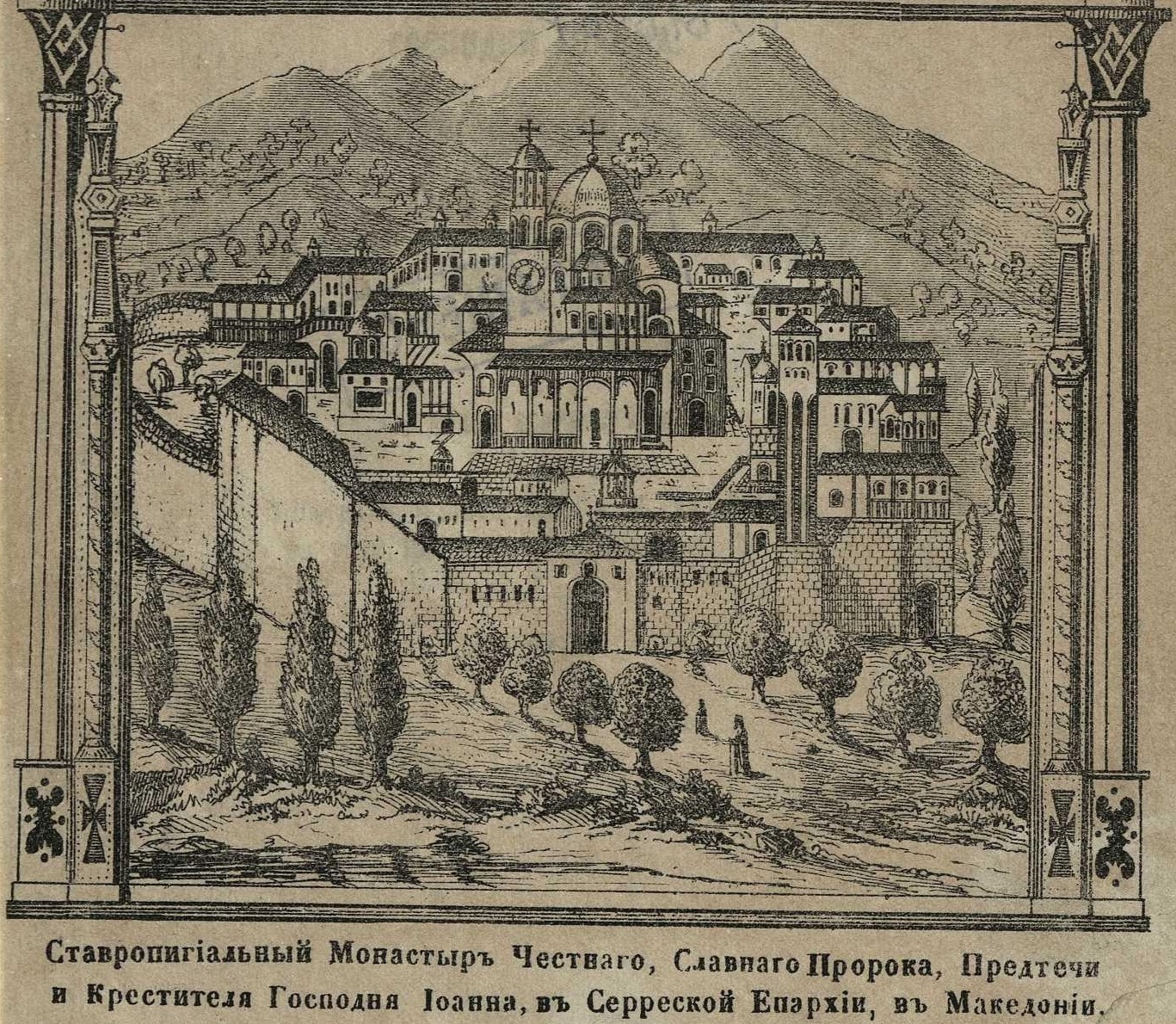 Isaiah 1864 Gravure